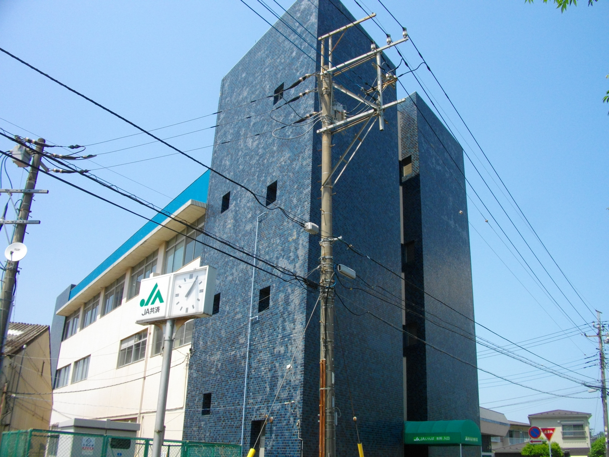 JA Imba Headquarters